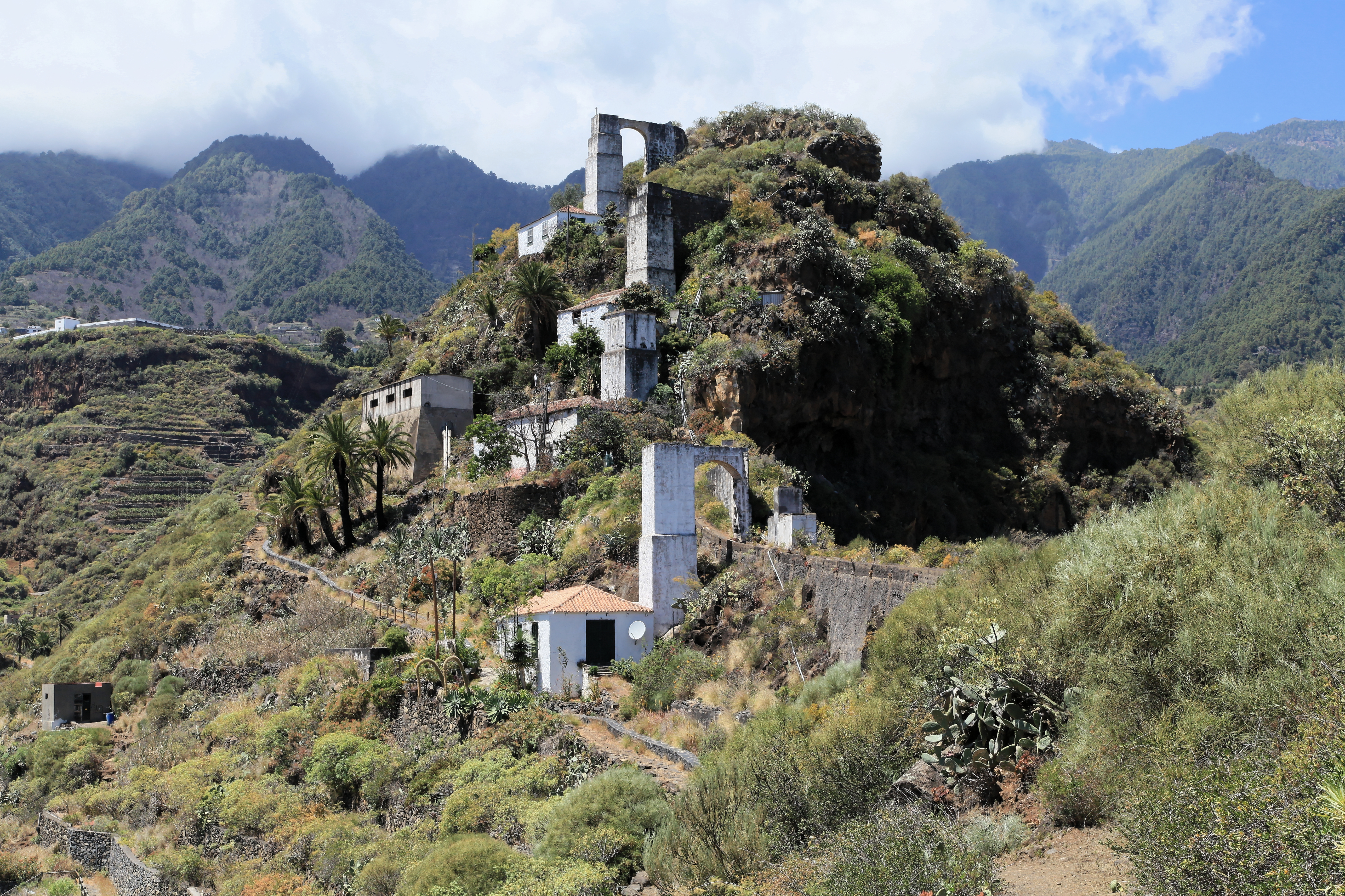 View from Calle El Pilar to the Molinos de Bellido in Santa Cruz de La Palma, La Palma, Canary Island, Spain